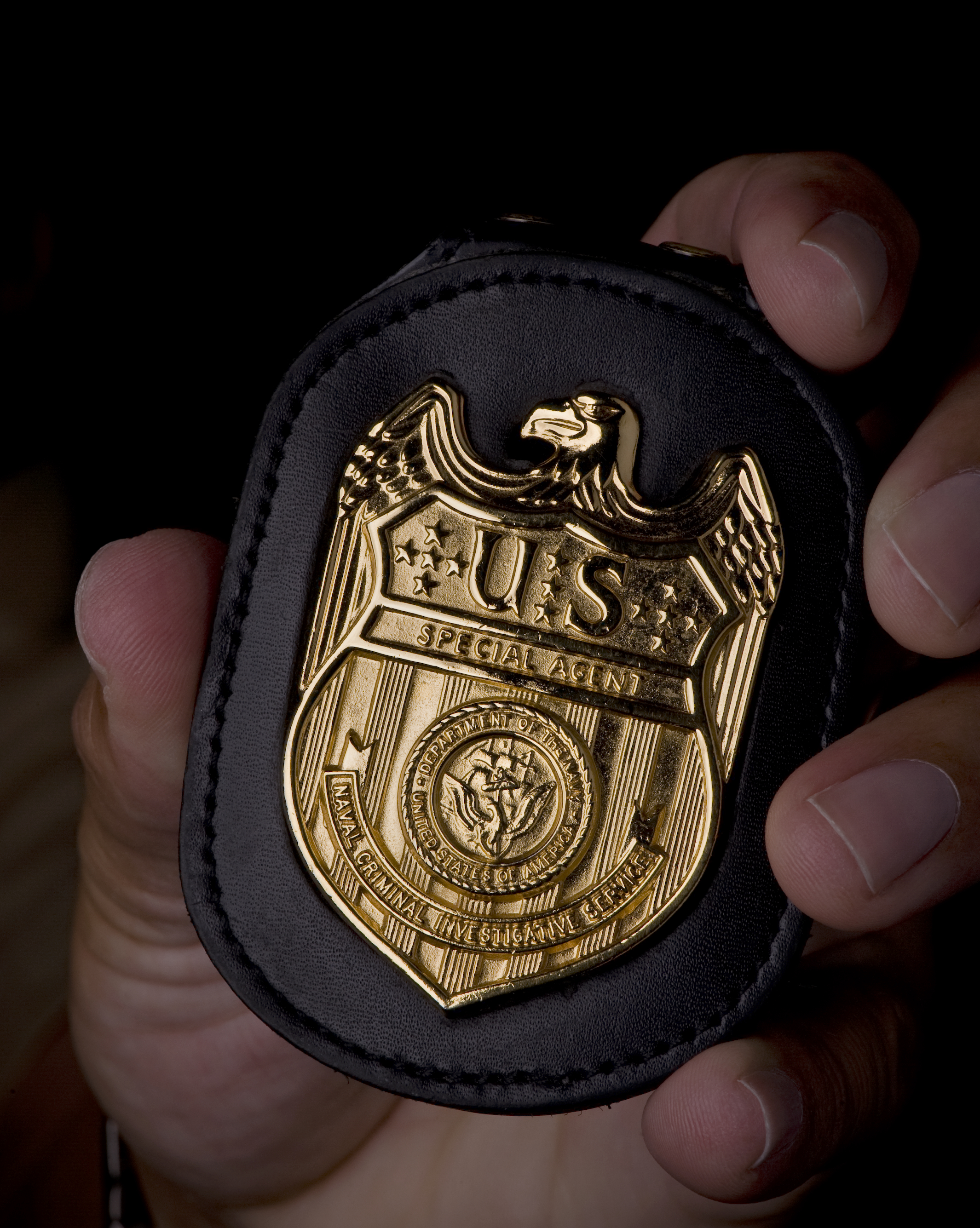 090625-N-6932B-015 WASHINGTON (June 25, 2009) The Naval Criminal Investigative Service (NCIS) is the Navy's primary law enforcement and counterintelligence force. The agency works in tandem with local, state, and federal law enforcement as well as foreign agencies to counter and investigate the most serious crimes ranging from terrorism and espionage to common felonies involving Department of the Navy personnel. (U.S. Navy photo illustration by Mass Communication Specialist 1st Class R. Jason Brunson/Released)